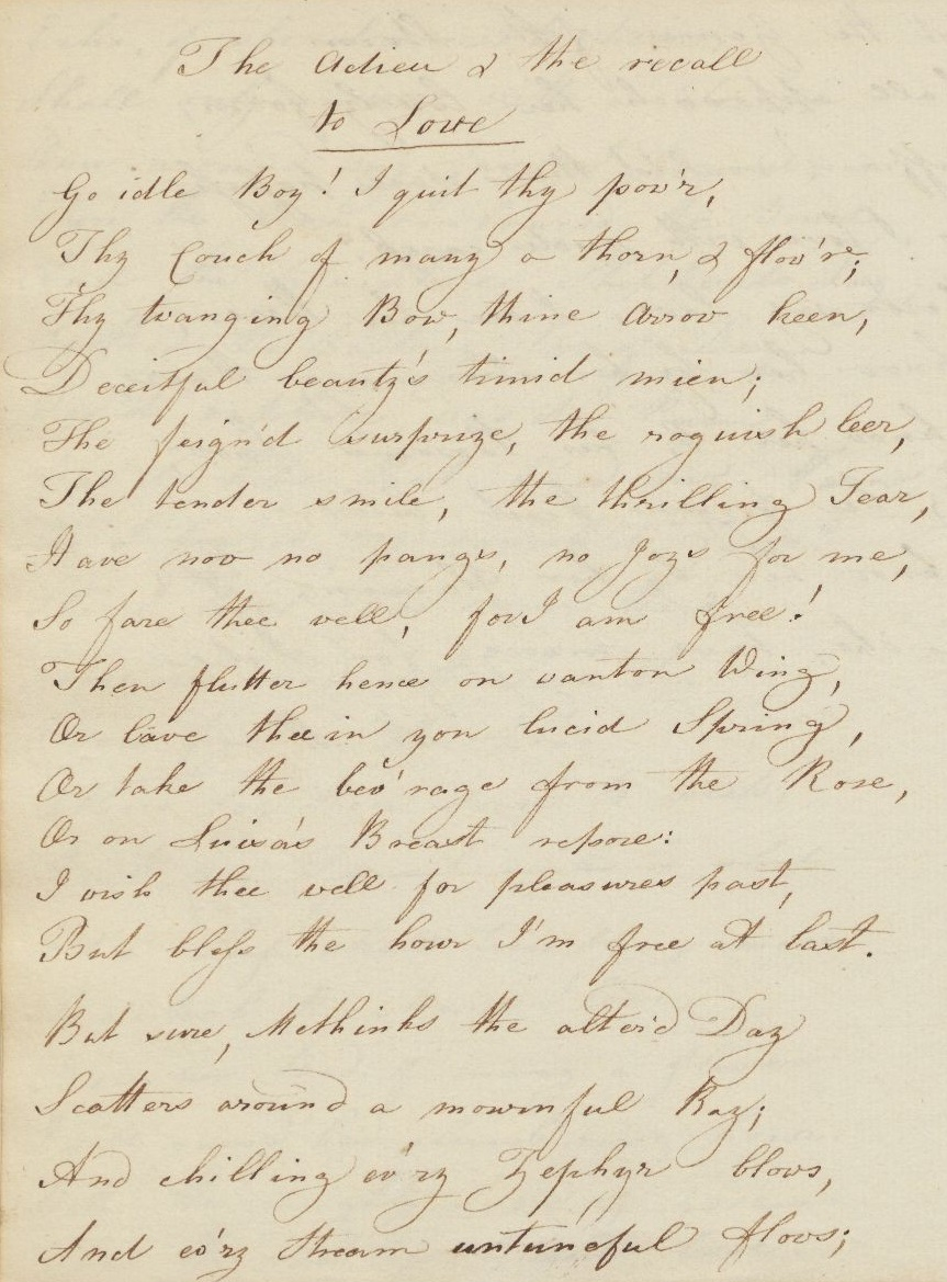 Manuscript of poem "Adieu and Recall to Love" by Robert Merry (1755-1798), dated circa 1787. From a scrapbook of his manuscripts. MS Eng 994, Houghton Library, Harvard University